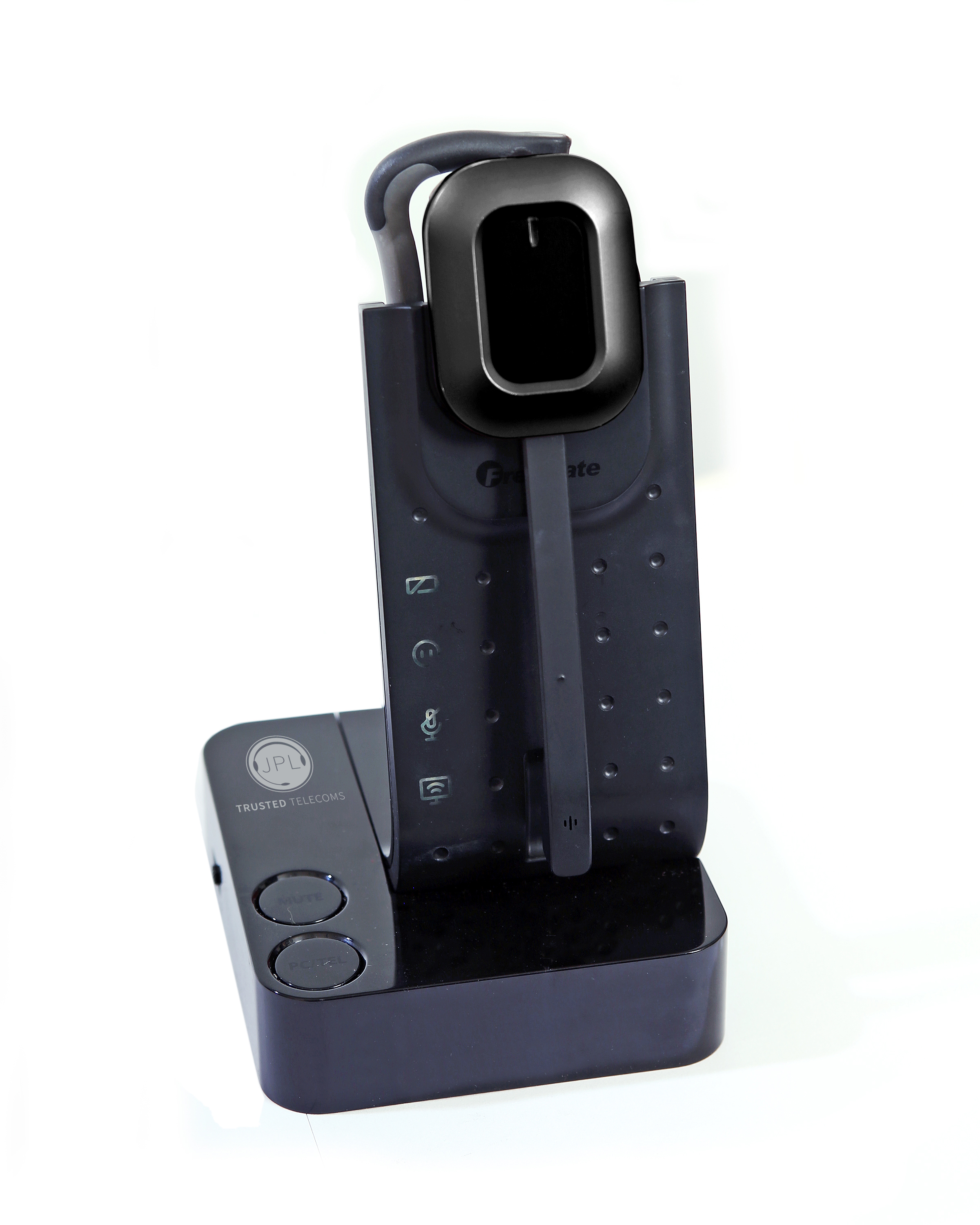 Single Ear Headset Overhead or over-ear headset 300 feet (100m) open space range 8-9 hours talk time (standby ~50 hours)